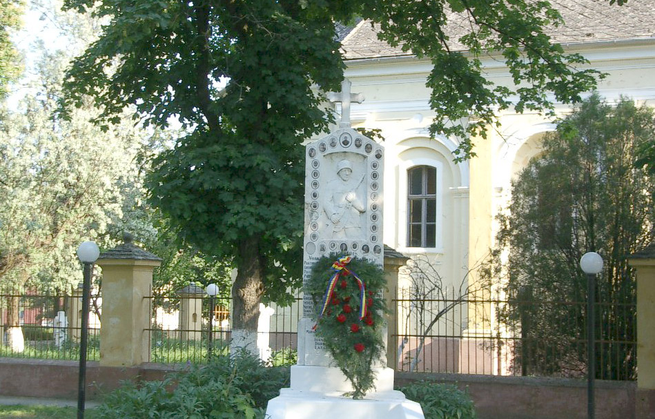 Comloșu Mare Park and Orthodox Church in the background. WW1 Monument in the foreground